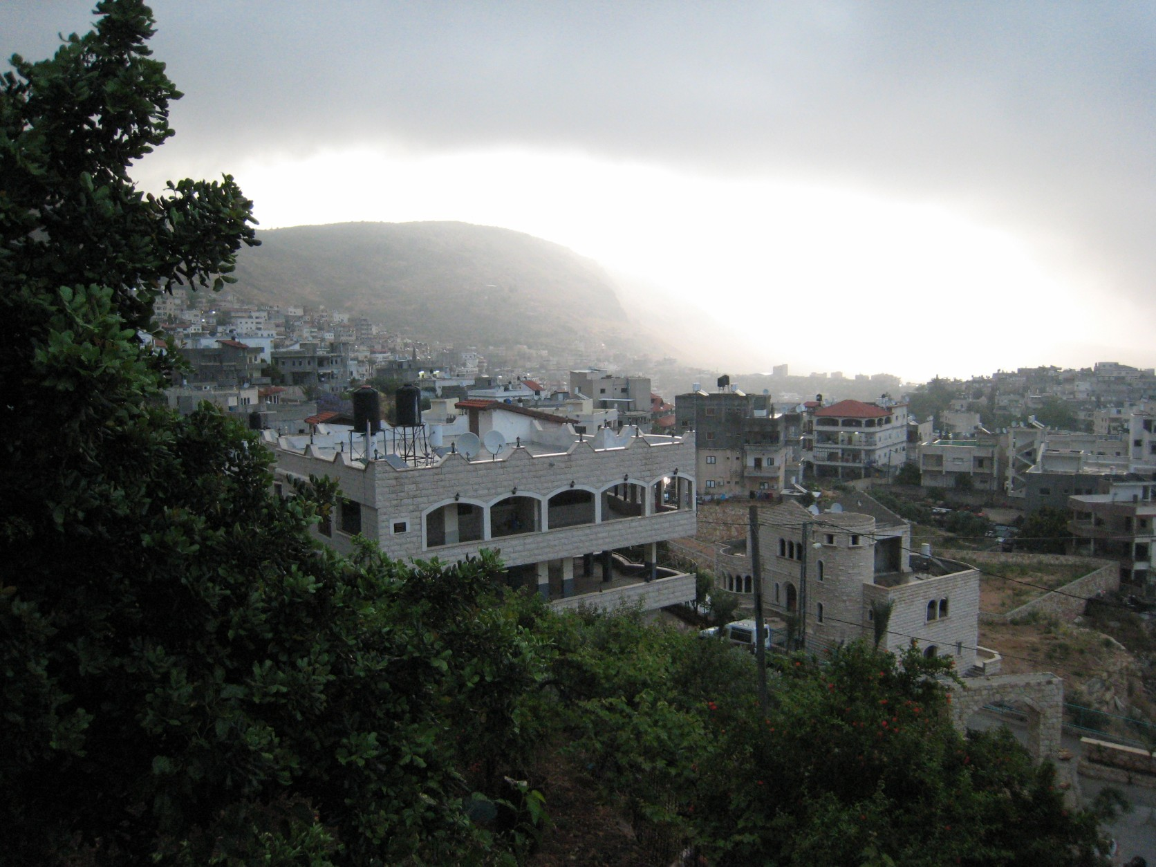 Deir Al Asad